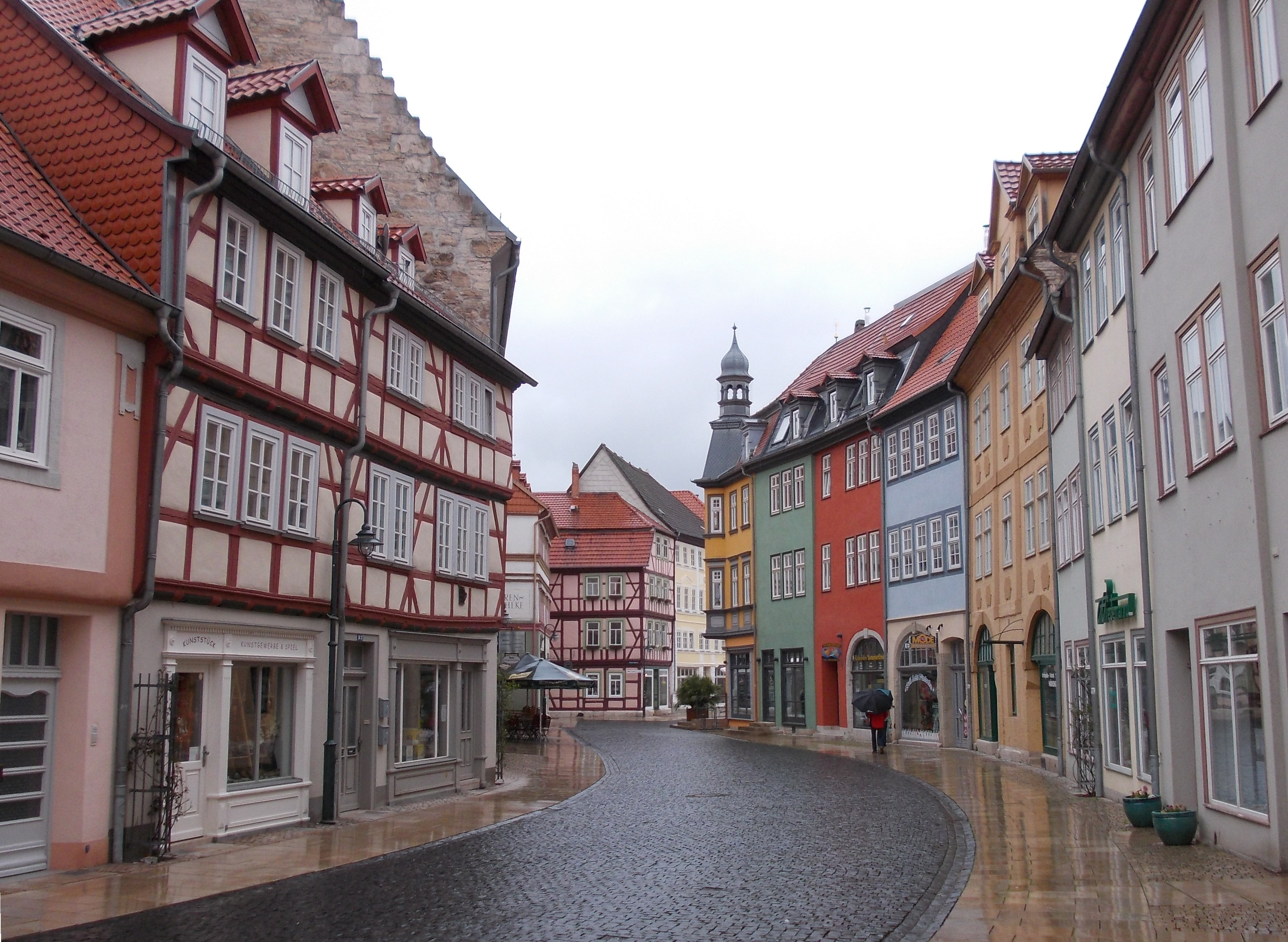 Mühlhäuser Strasse in Bad Langensalza (Unstrut-Hainich-Kreis, Thuringia)